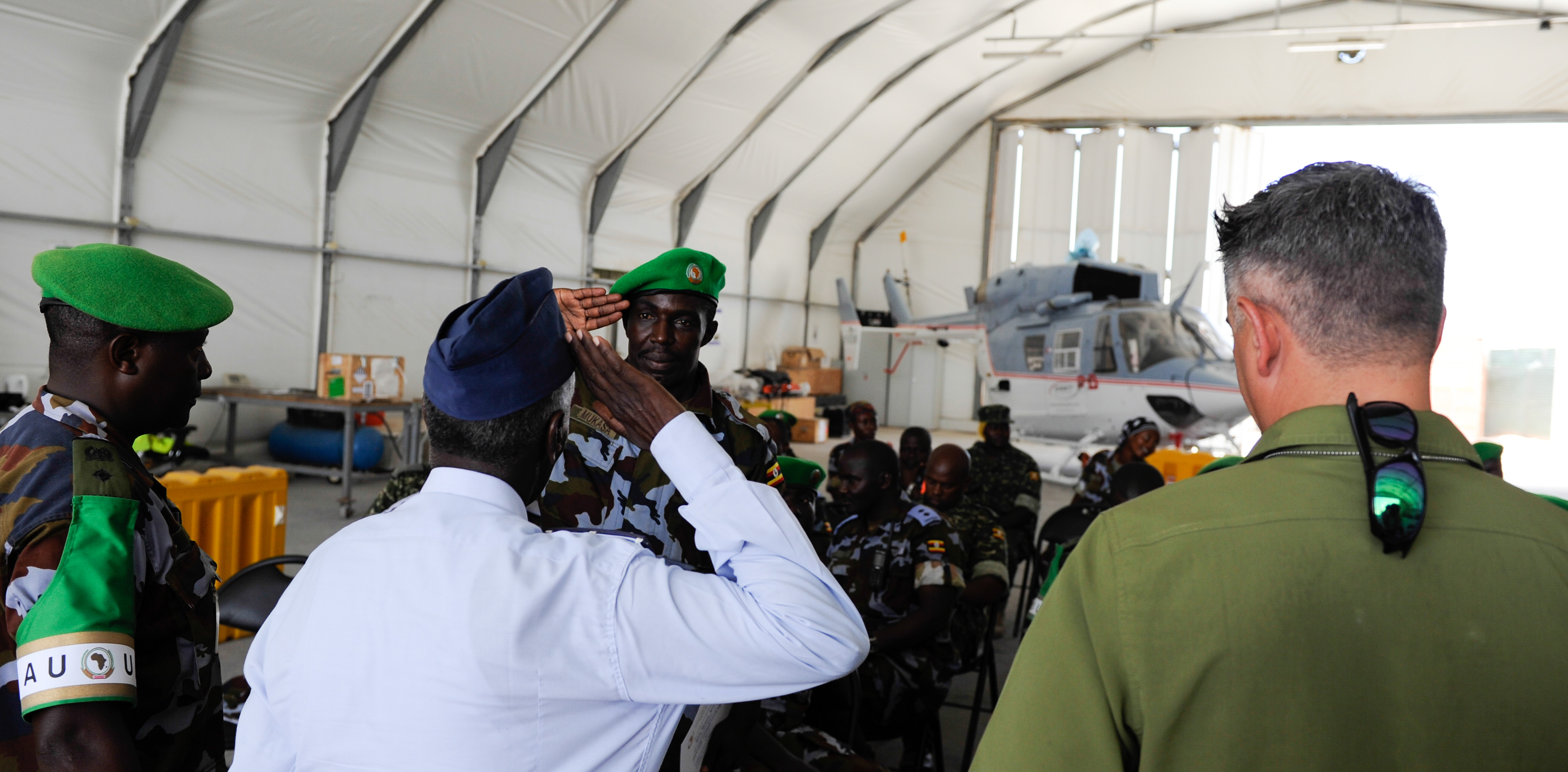 A Ugandan civil aviation officer salutes to Somali Air Force Commander General Mohamud Ali during a ceremony at Adan Adde International Airport in Mogadishu Somalia on October 26, 2014. The officer was part of AMISOM officers who were arwaded certificates of appreciation for their work in Somalia. AU/UN IST Photo/ Ilyas A. Abukar